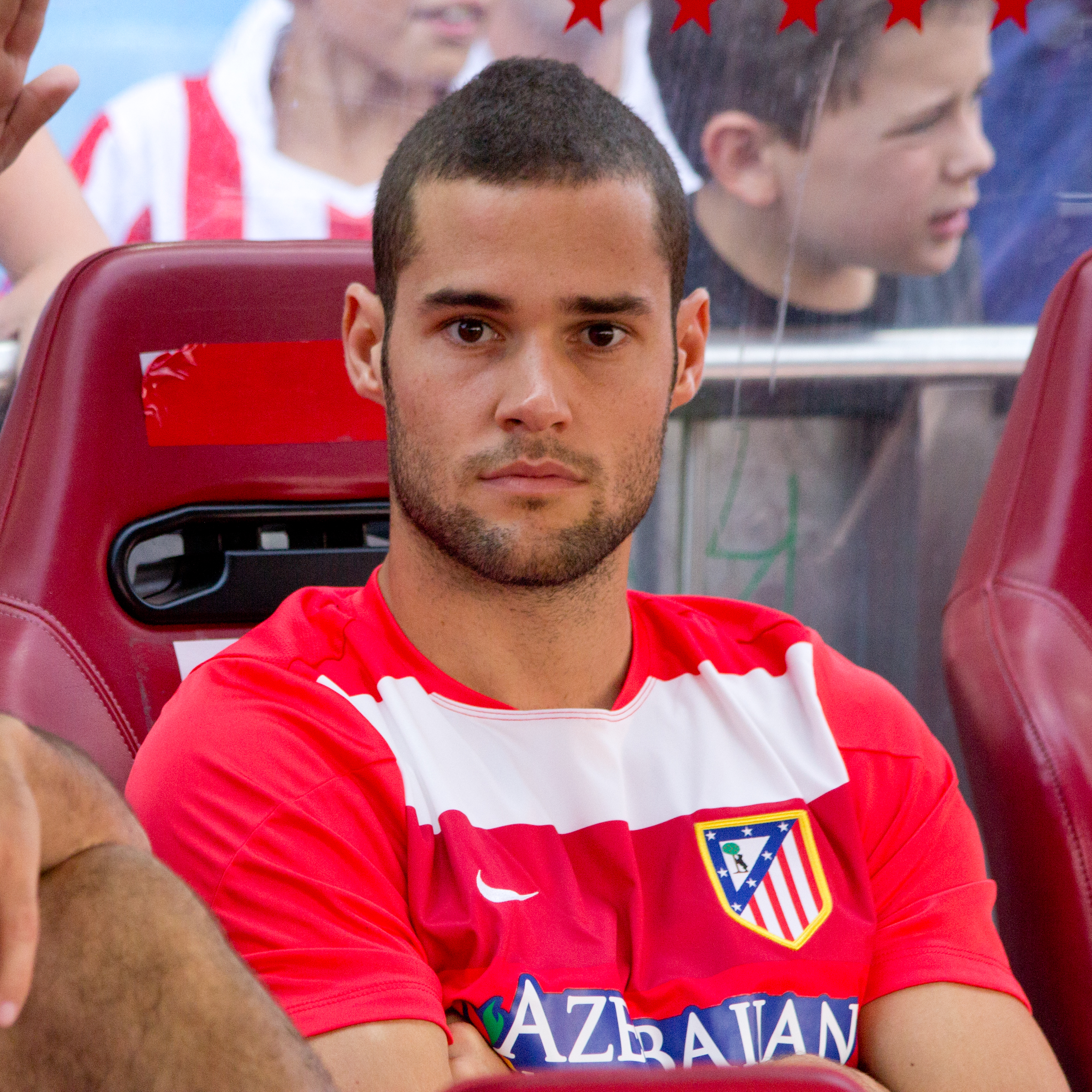 Mario Suárez, footballer of Atlético de Madrid.